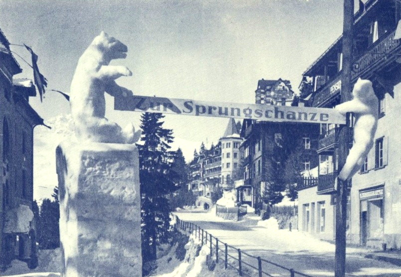 Banner for the skijumping hill at Poststrasse Arosa